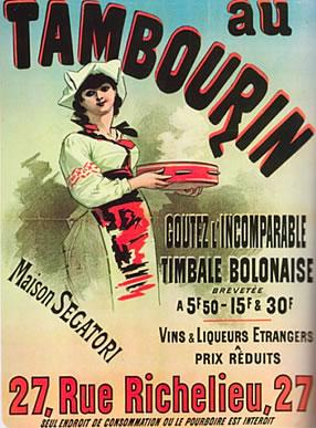 Poster du Café du Tambourin, 1885